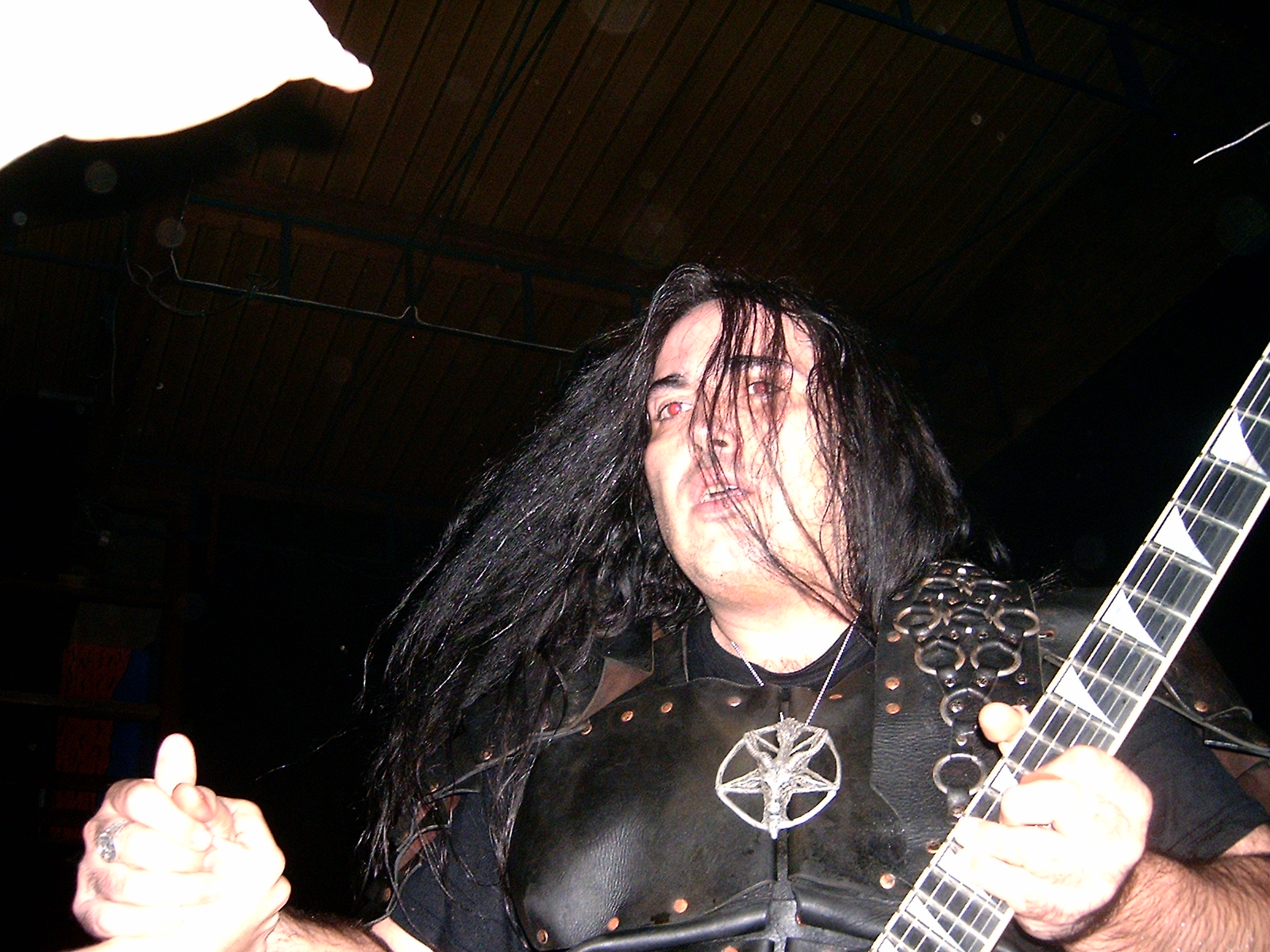 Tony Lazaro member of Vital Remains - death metal band